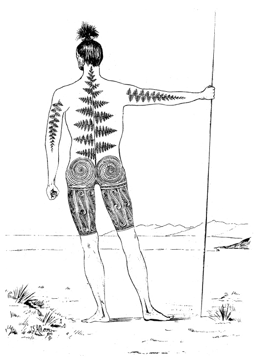 Tattooed back of a Māori Chief, New Zealand, 19th century